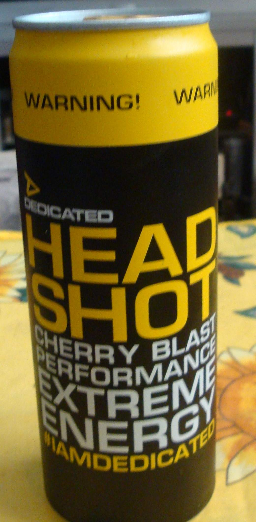 Headshot energy drinks for sports people, not in every store for sale, very strong.